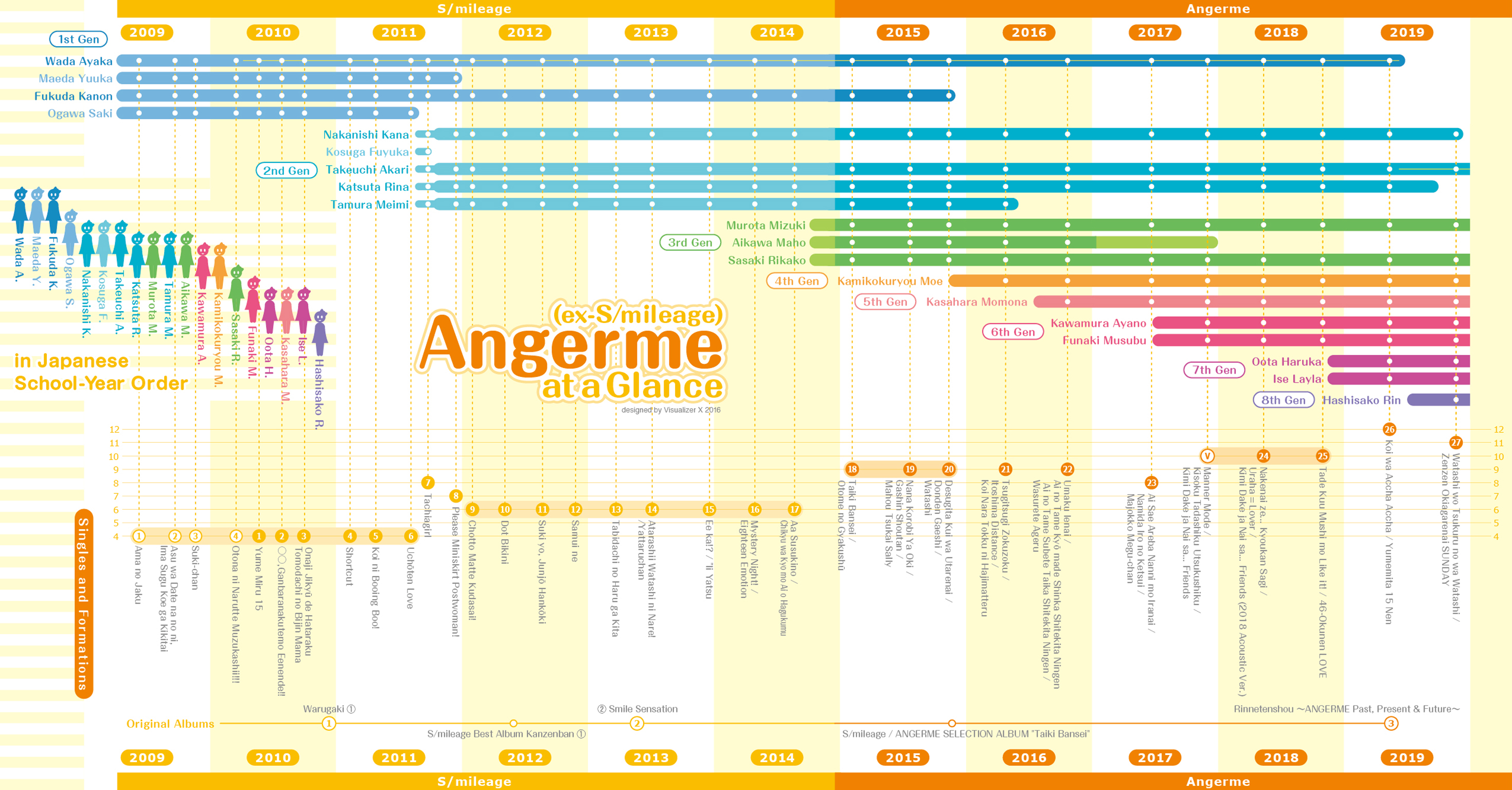 An infographic about the history of Angerme's members and singles